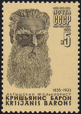 Postage stamp issued by the Soviet Union 1985 depicting Krišjānis Barons.